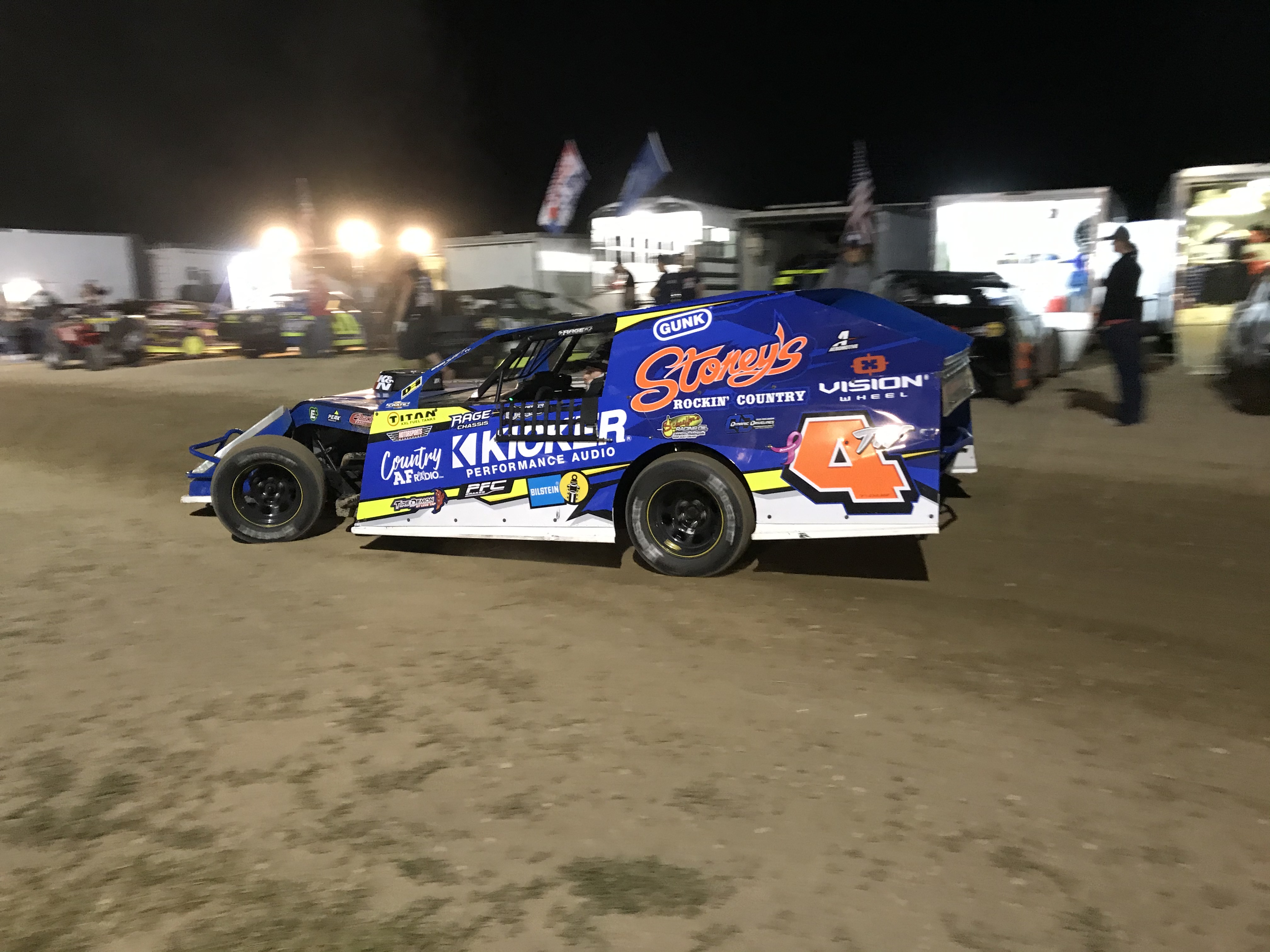 Tim Ward’s No. 4TW IMCA Modified pulls into its pit stall after a heat race before the 2020 Clash at the Creek at 141 Speedway on June 17, 2020.